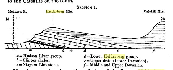 Original caption: "A cross section of the Helderbergs published in Geological Magazine in 1878."